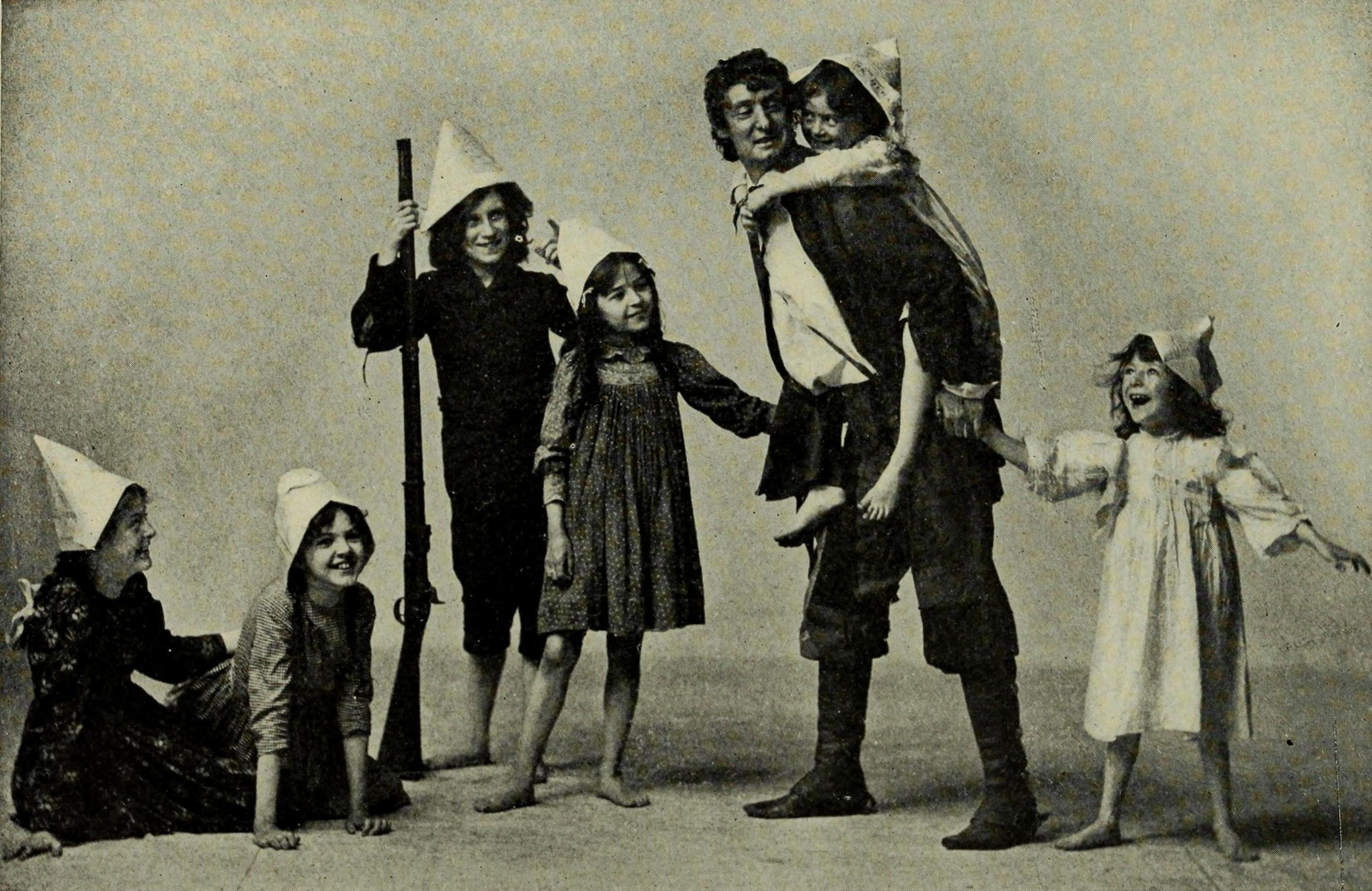 Thomas Jefferson with children in Rip Van Winkle. Photo by Pach. Title: Intimate recollections of Joseph Jefferson Year: 1909 (1900s) Authors: Jefferson, Eugâenie Paul Subjects: Jefferson, Joseph, 1829-1905 Publisher: New York : Dodd, Mead and Co.